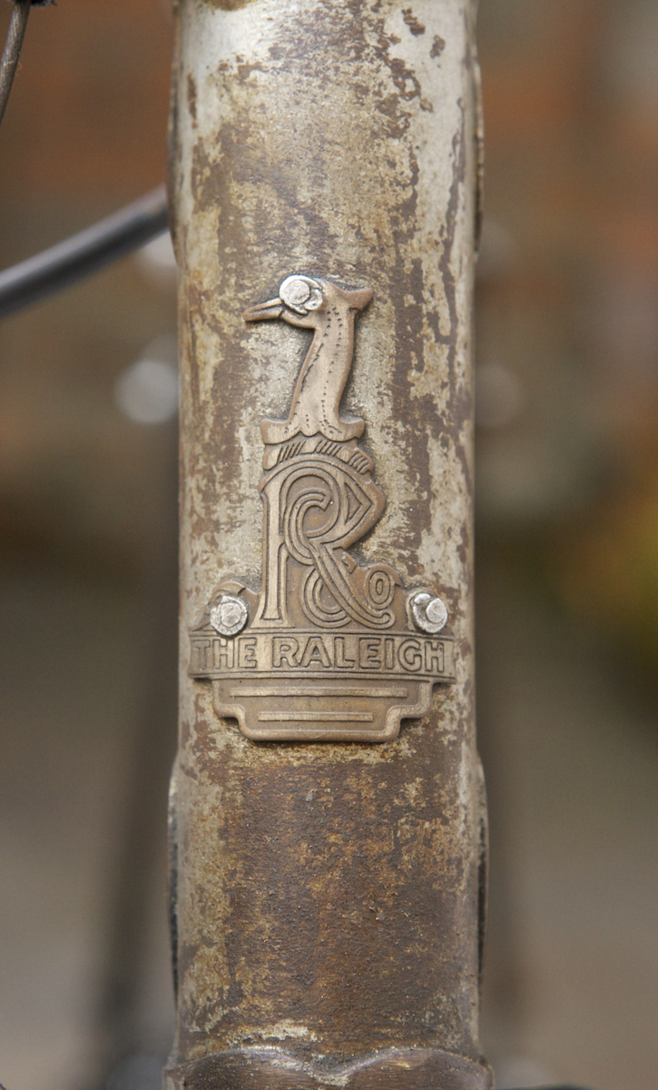 A heron badge from an Irish-manufactured Raleigh bicycle. The "Nottingham England" legend usually seen at the bottom of the badge is replaced by two bars on these models.